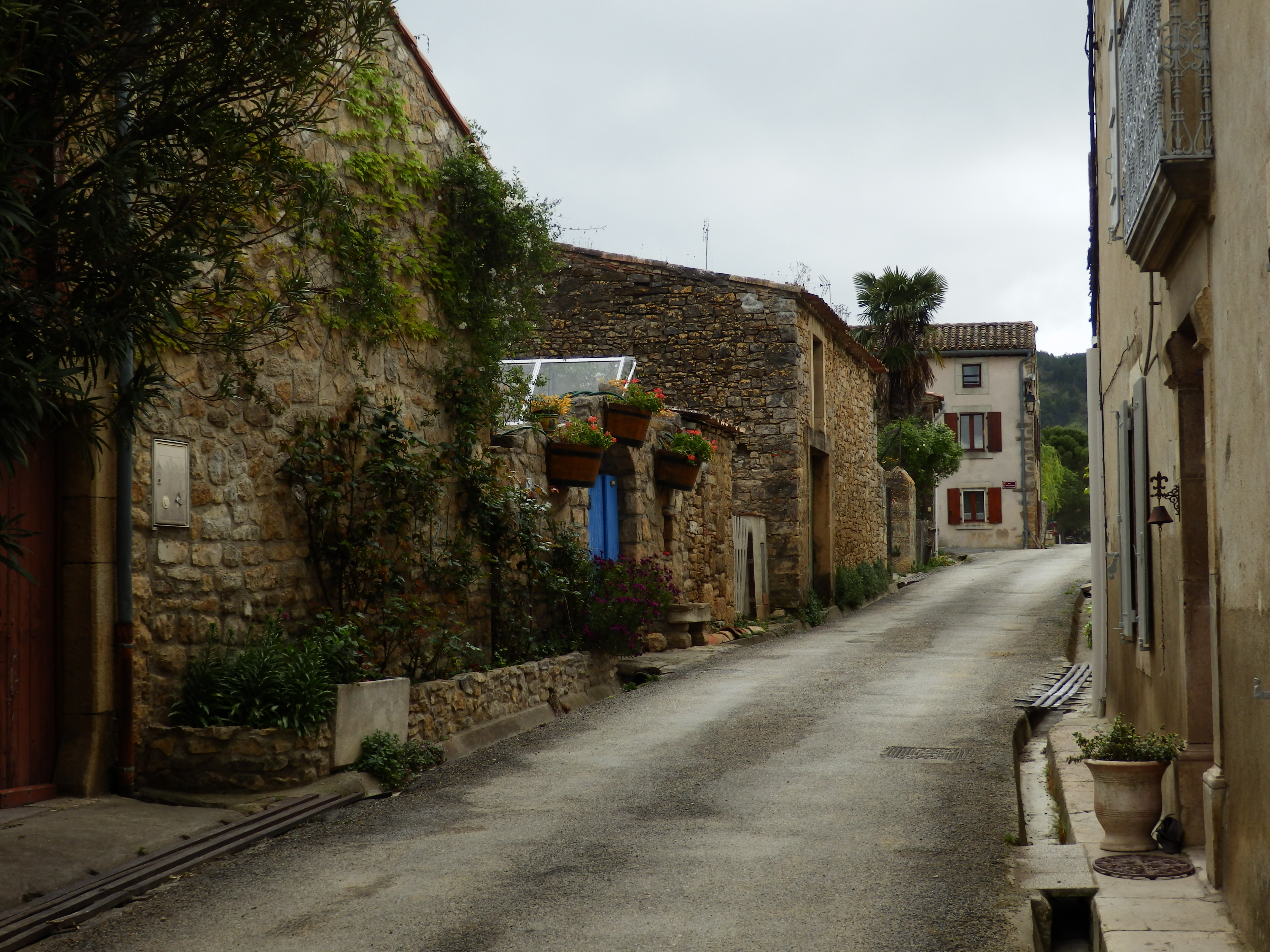 Street in Roquetaillade, Aude, France